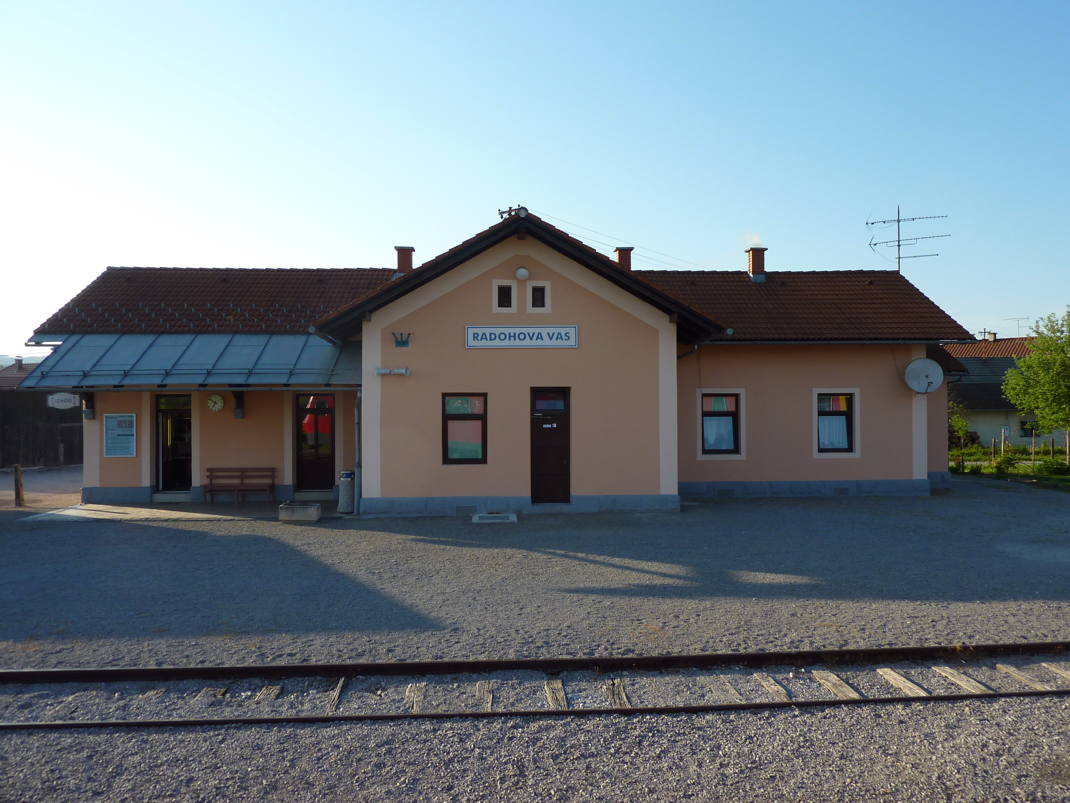 Railway station Radohova Vas, in Slovenia